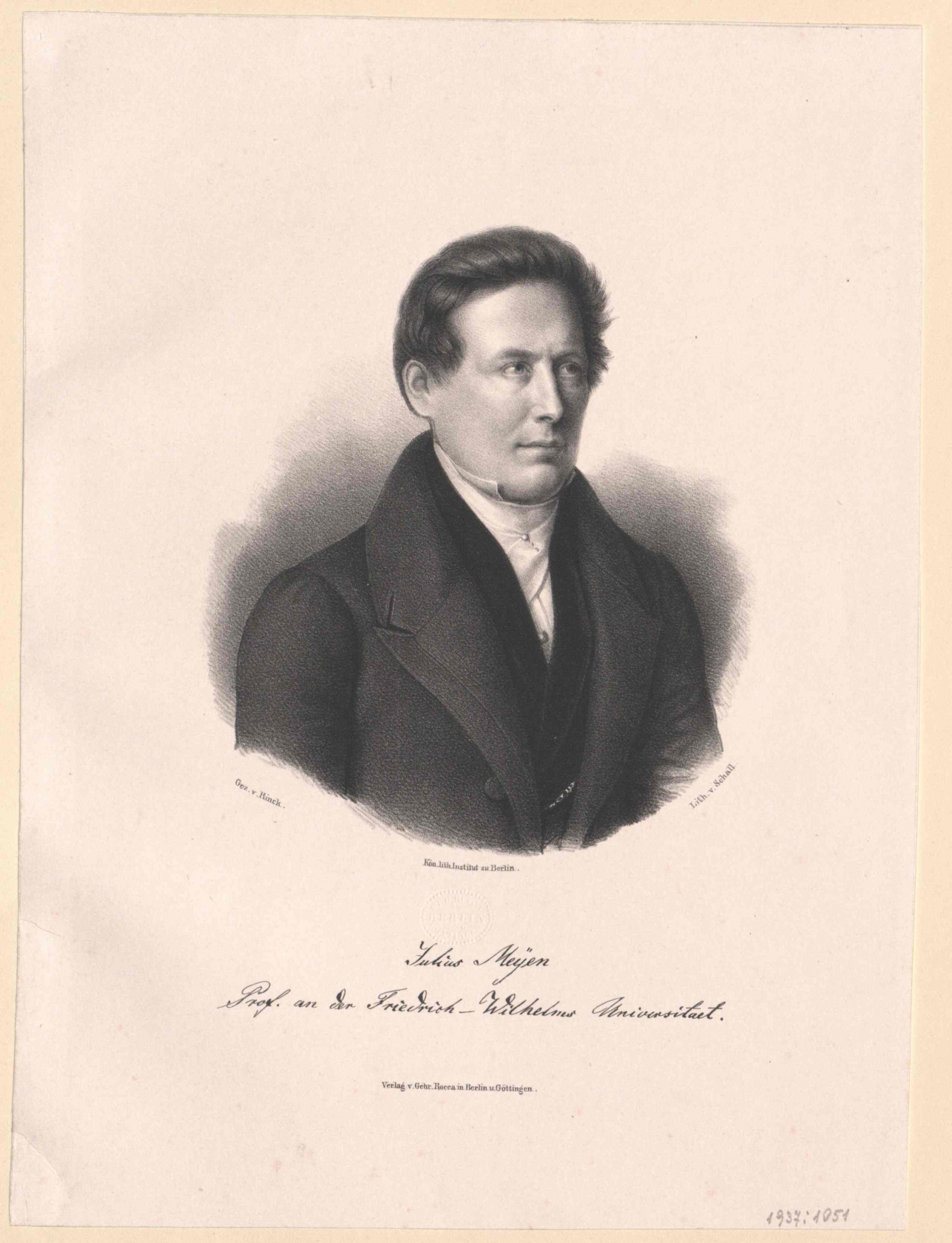 Portrait of the Prussian physician and botanist Franz Julius Ferdinand Meyen (1804-1840)